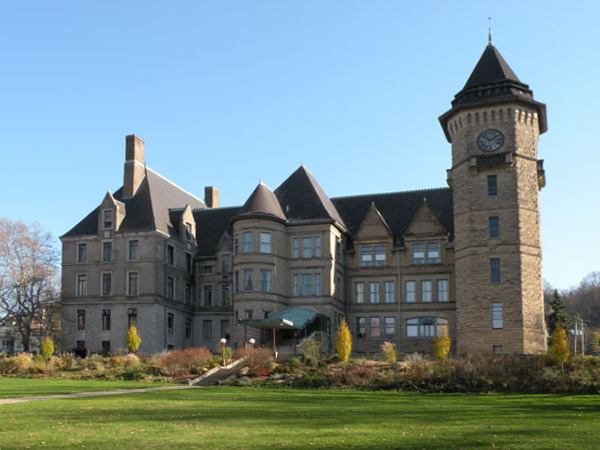 Picture of the Westinghouse Air Brake Company General Office Building located at Marguerite and Bluff Streets in Wilmerding, Pennsylvania, on November 8, 2009. Built in 1890, this building contained the offices of the Westinghouse Air Brake Company, founded by George Westinghouse. The building is listed on the National Register of Historic Places. Architect: Frederick J. Osterling (1890), with additional designs and remodeling done by Janssen & Cocken in 1927. Architectural style: Renaissance Revival, Other, Romanesque Revival.